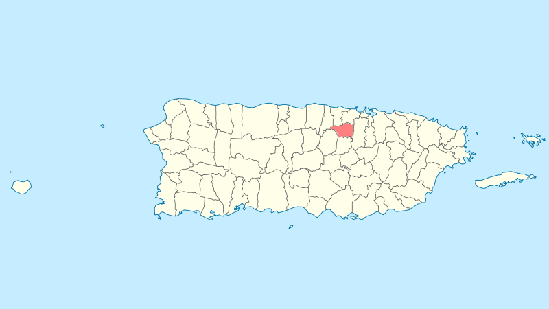 Municipal locator of Puerto Rico